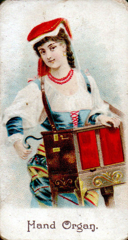 Cigarette card